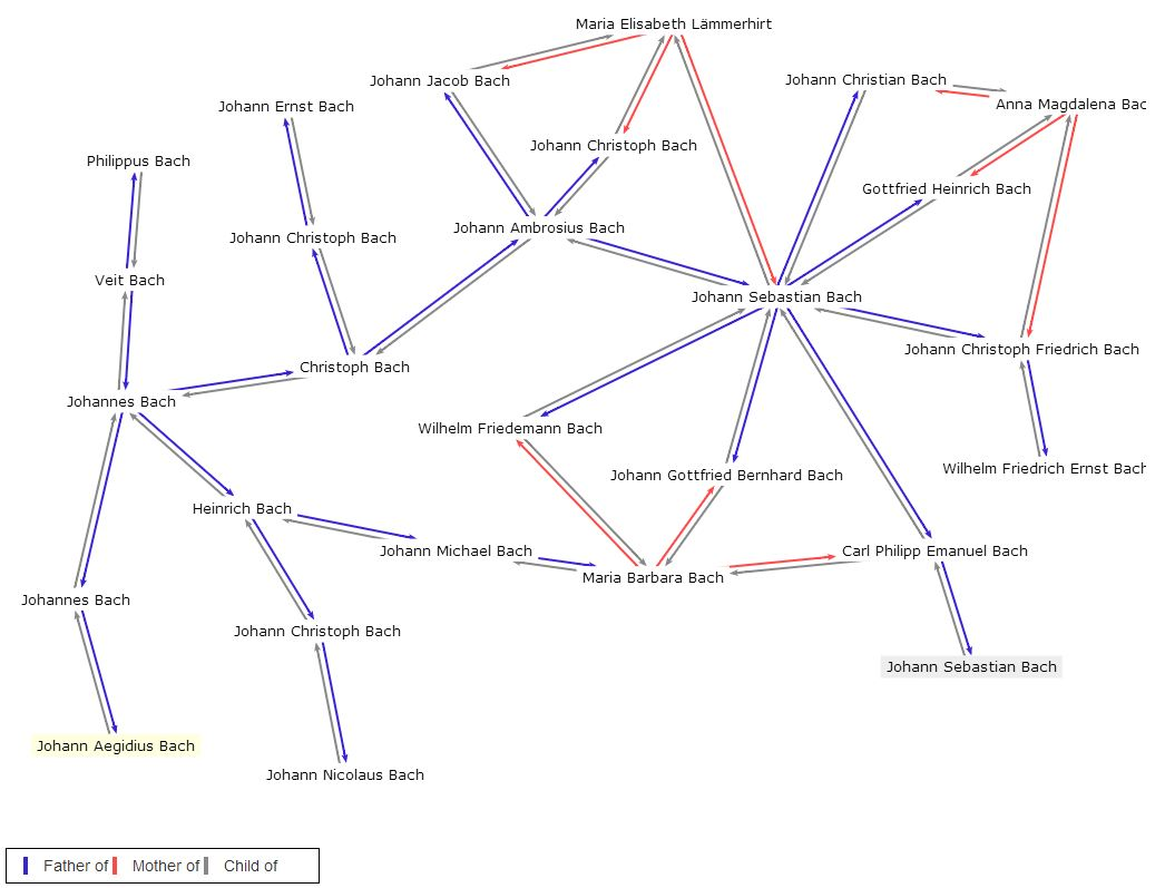 Created using tool